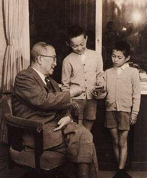 Japanese Prime Minister Ichirō Hatoyama (鳩山一郎, 1883–1959, in office 1954–56), with his two grandsons, the future congressman and prime minister Yukio Hatoyama (center) and his brother also the future congressman Kunio Hatoyama.